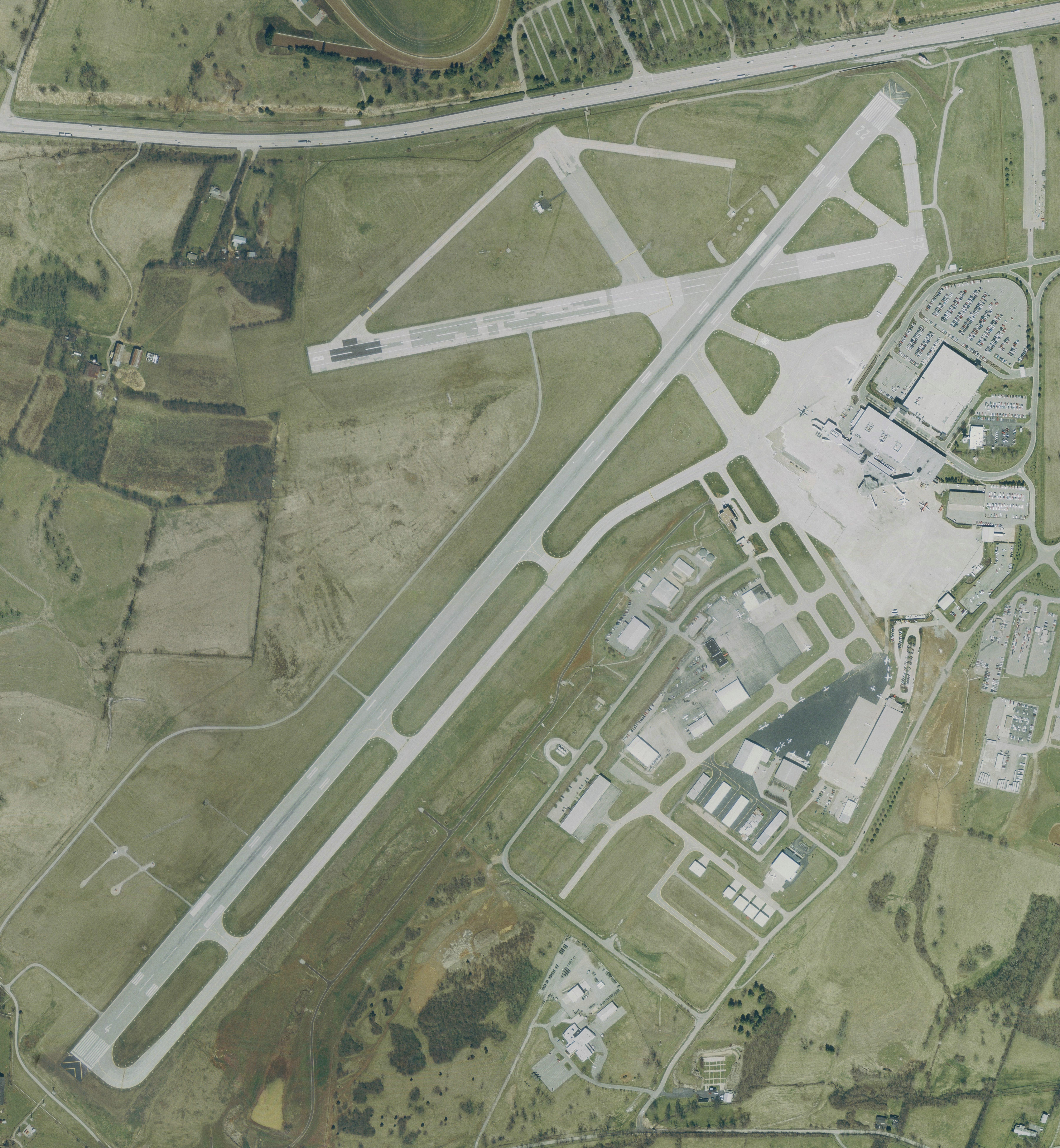 USGS urban ortho of Blue Grass Airport, Kentucky, USA.